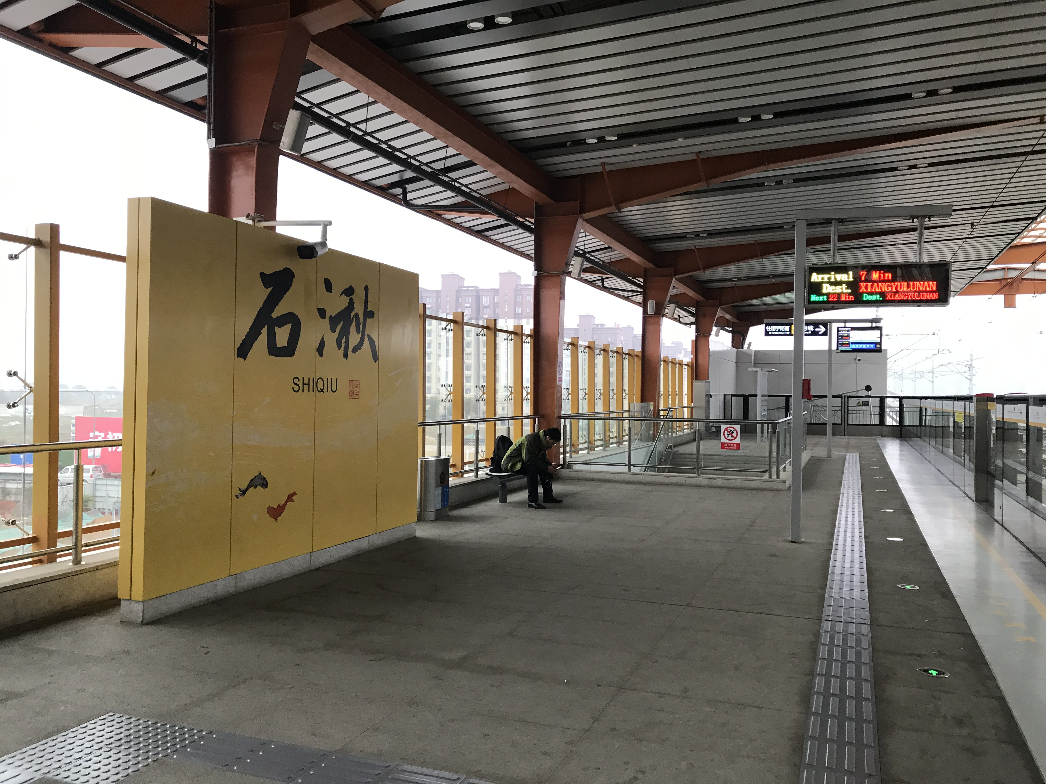 2019012 Platform of NJM Shiqiu Station